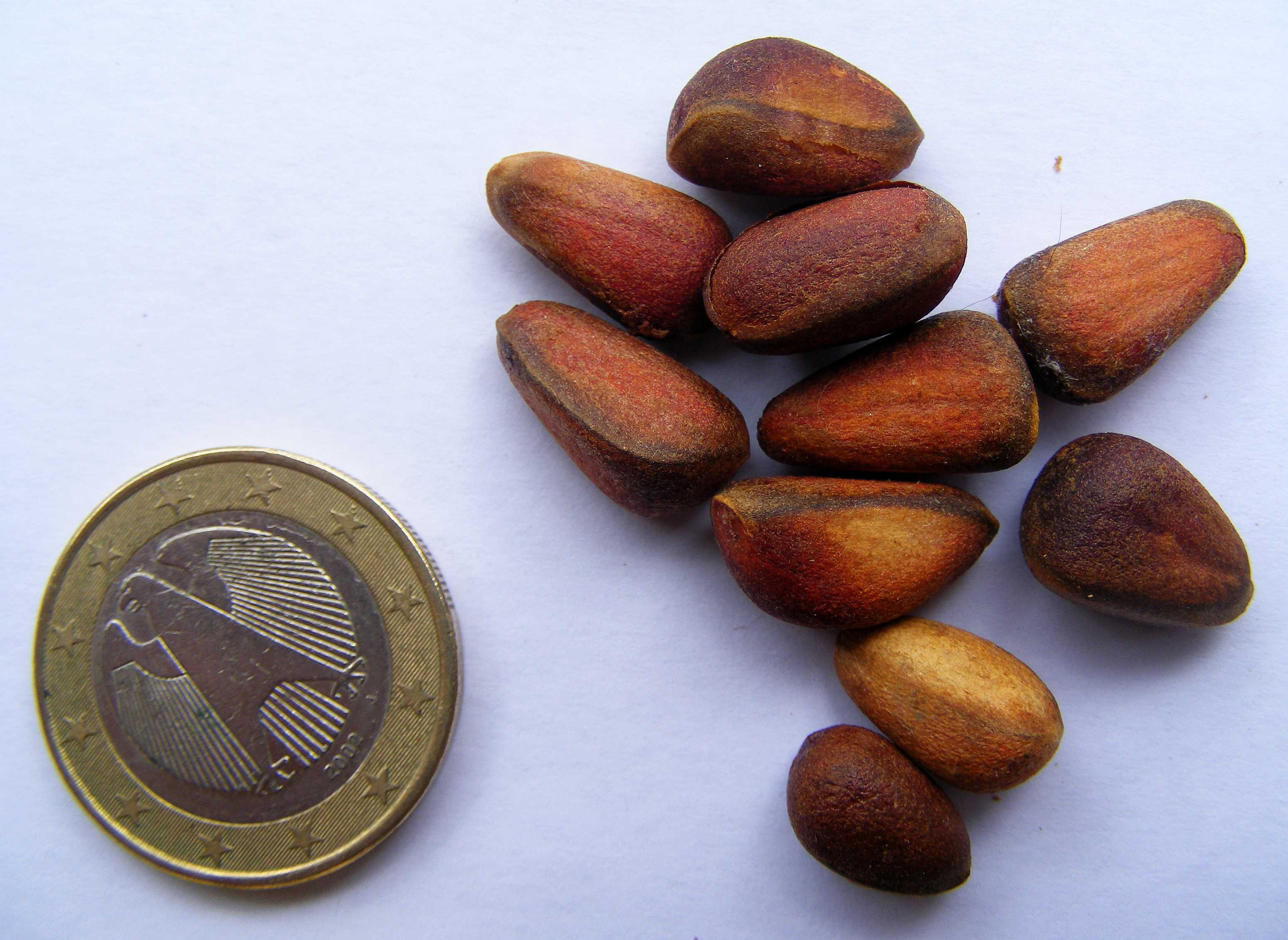 Pinus cembra seeds